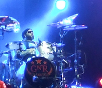 The American hard rock band Guns N' Roses at Sofia Rocks Fest 2012, Bulgaria.